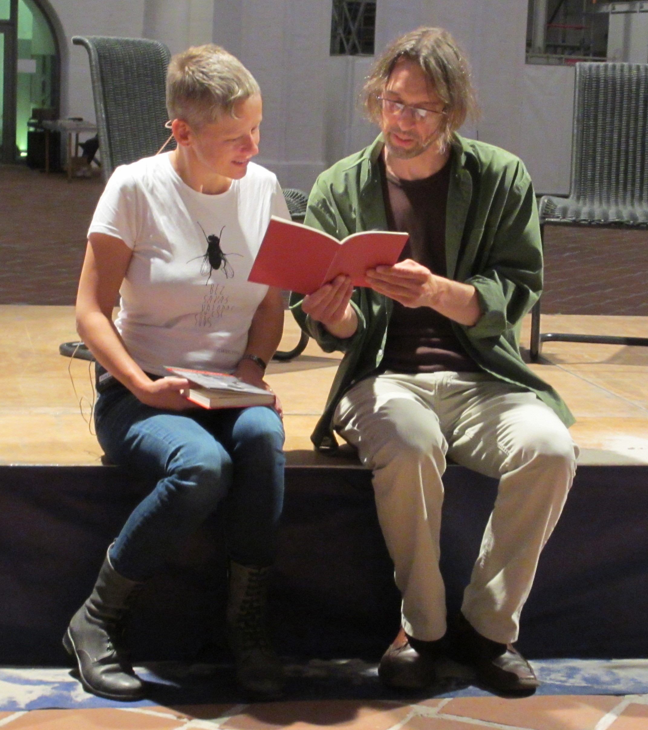 Latvian writer Dace Rukšāne and translator Matthias Knoll, St.Petri, Lübeck